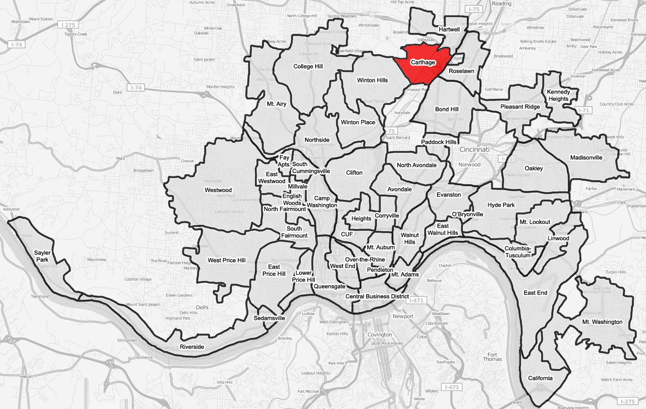 A map of the neighborhood of Carthage within Cincinnati, Ohio. Neighborhood lines are based on information from This street map is derived from a free map.